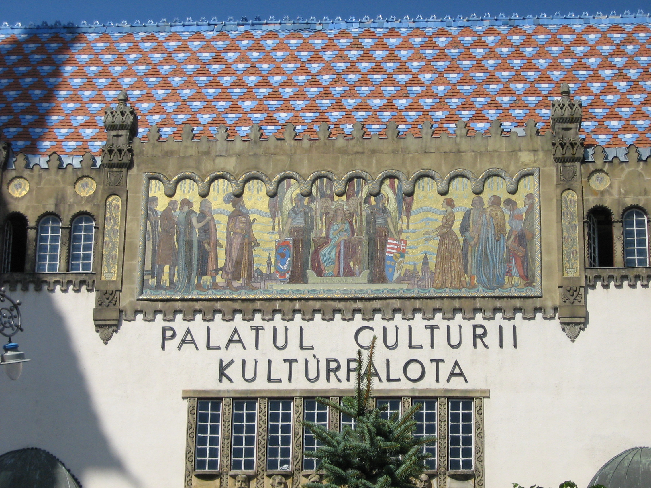 The mosaic on the facade of the Culture Palace of Targu Mures